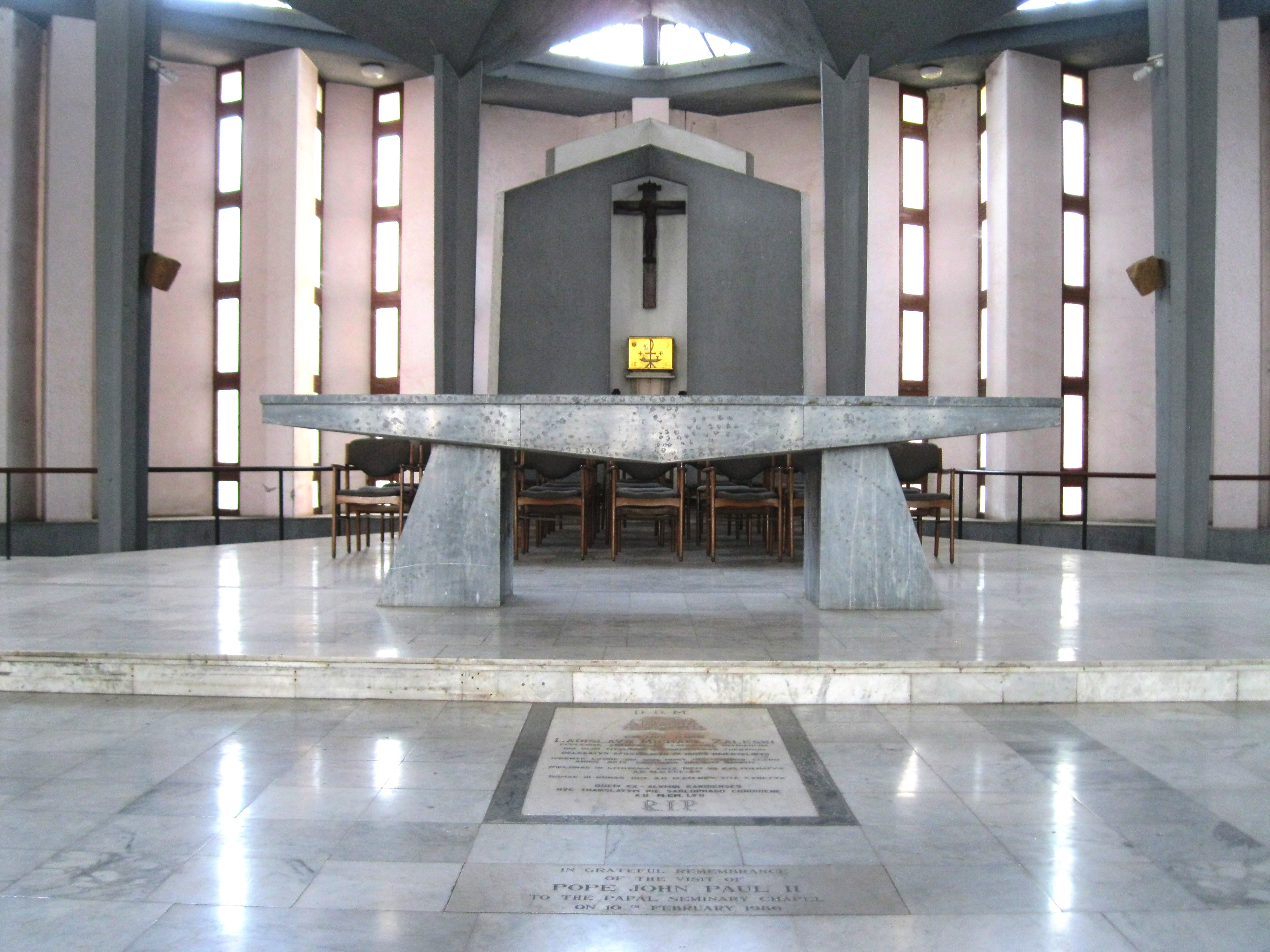 The altar of the Papal Seminary chapel in Pune. In front of the altar are plaques marking the remains of Wladyslaw Zaleski, and commemorating the place his compatriot Pope John Paul II knelt during his visit to the seminary chapel.